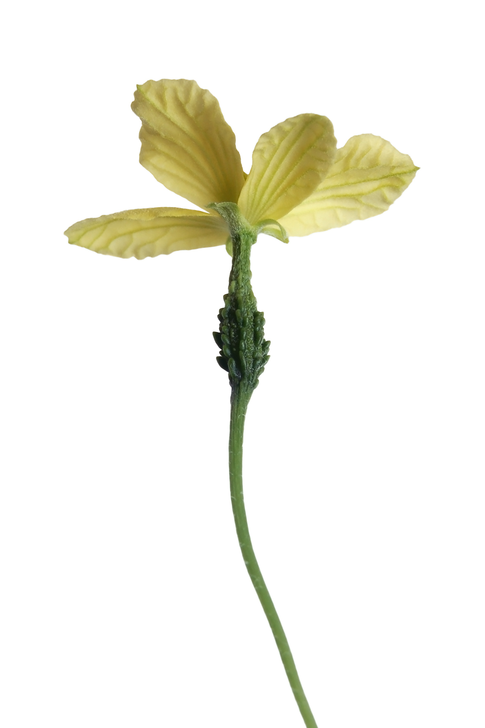 Female flower of bitter melon (Momordica charantia), Thai variety.